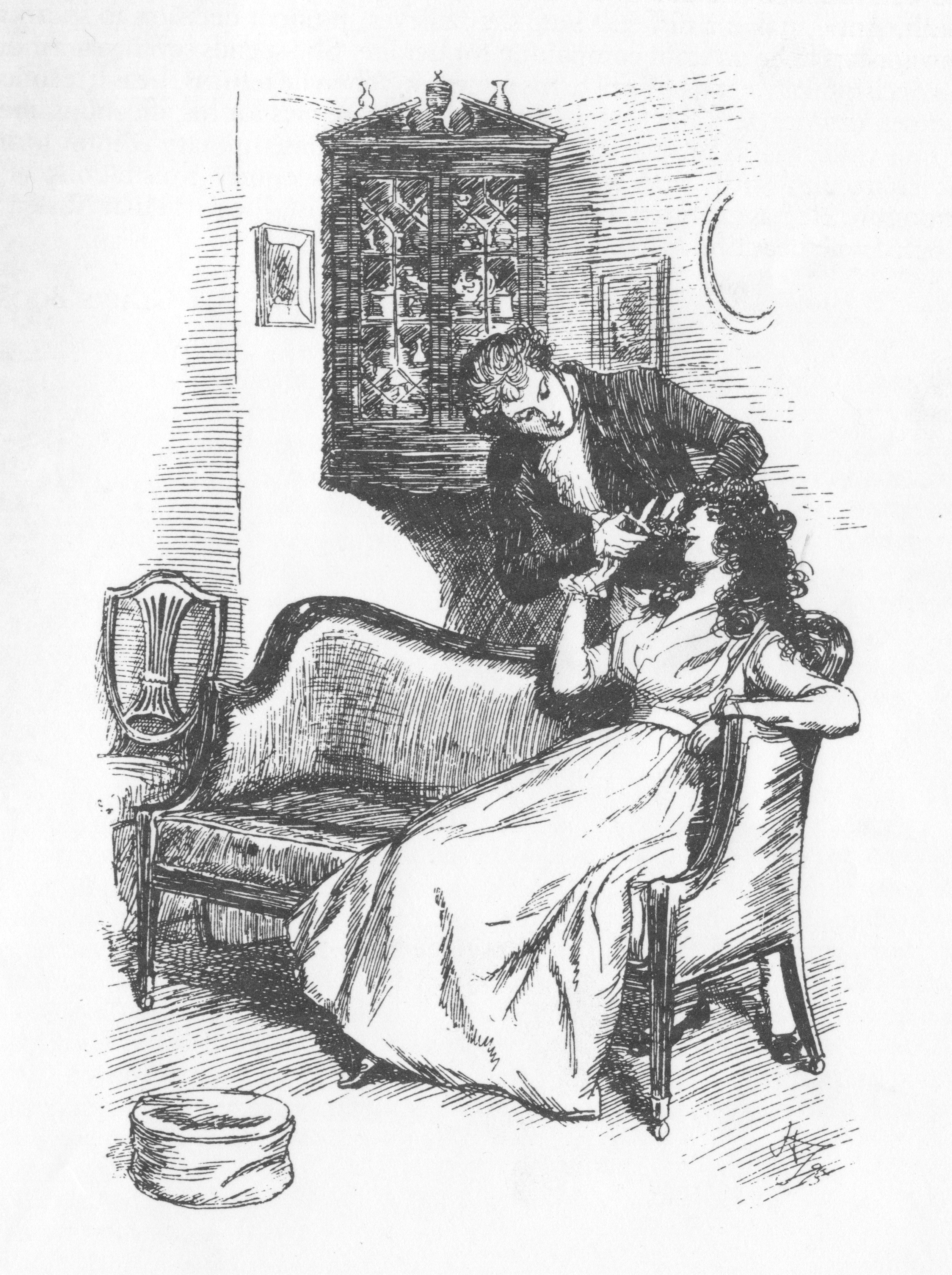 Illustration from Sense and Sensibility by Jane Austen. The illustration is by Hugh Thomson (1860-1920). This illustration is from Chapter 12 of Sense and Sensibility. The caption for the picture is "He cut off a long lock of her hair." (According to the customs and etiquette of the time, permitting him to take a lock of her hair as a keepsake would be considered improper on her part unless the two were actually engaged.)